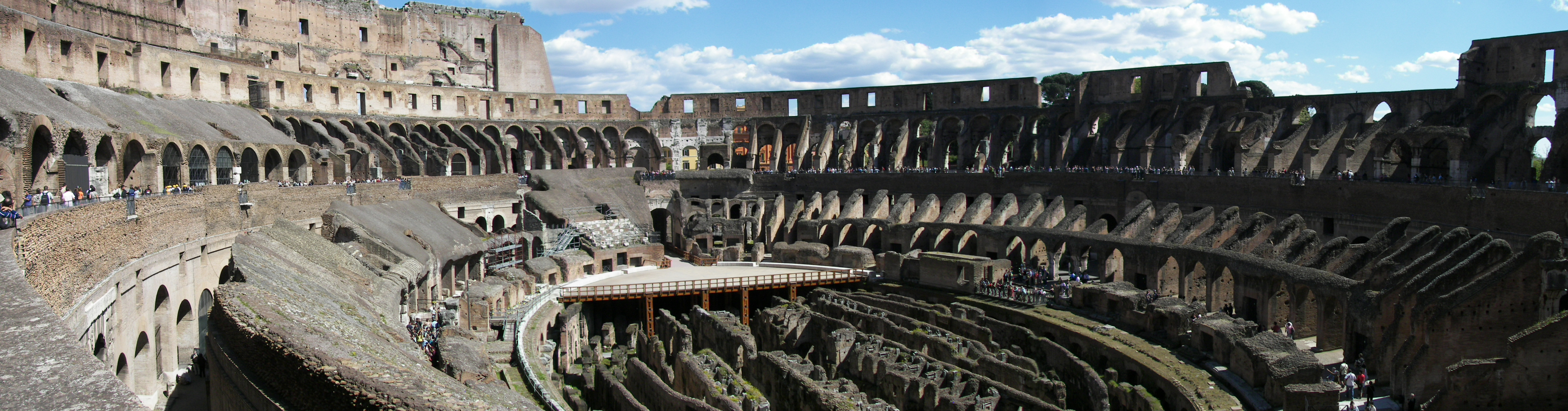 Panoramic of the interior of the Colosseum in Rome.